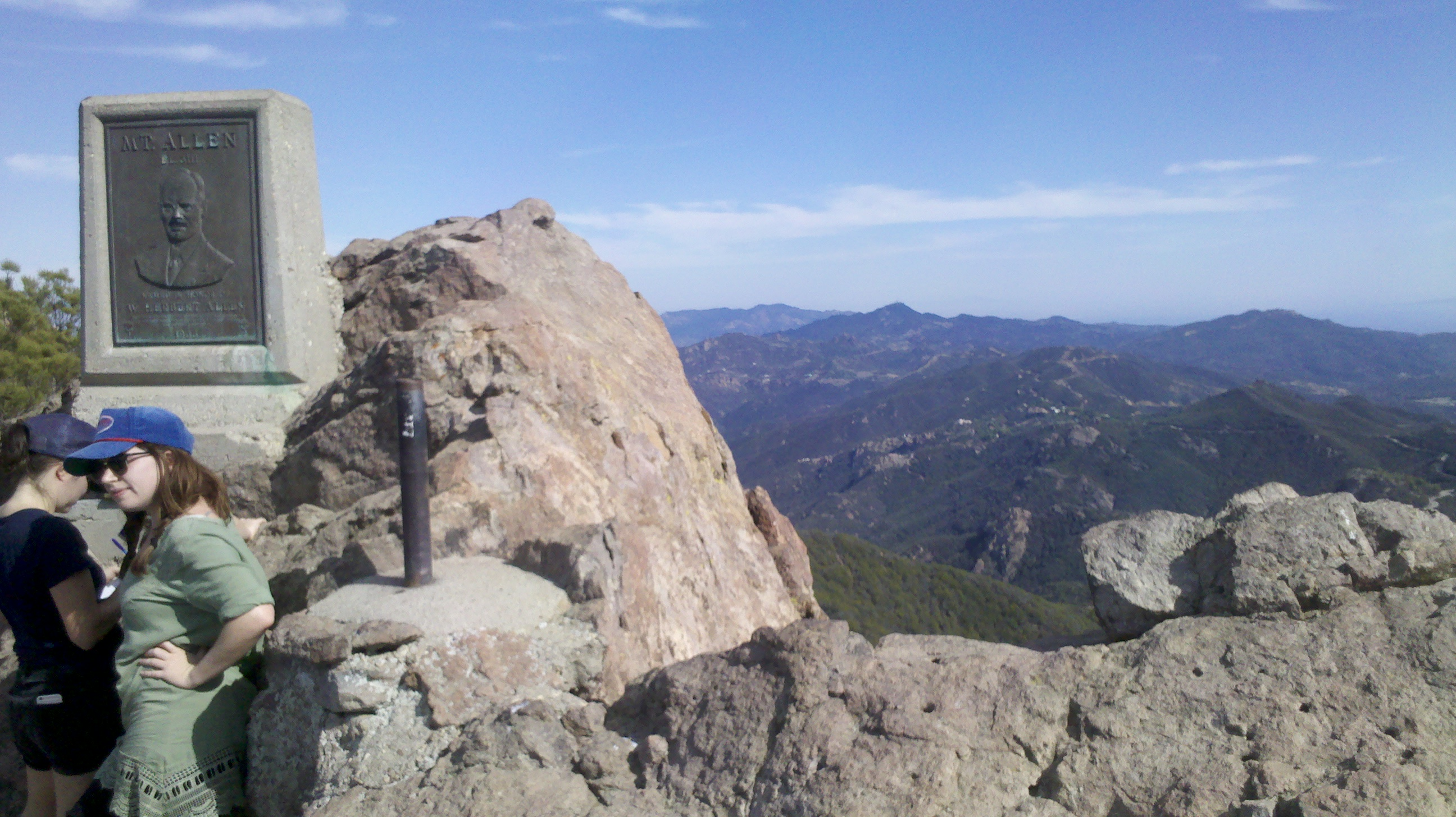 Sandstone Peak summit with hikers